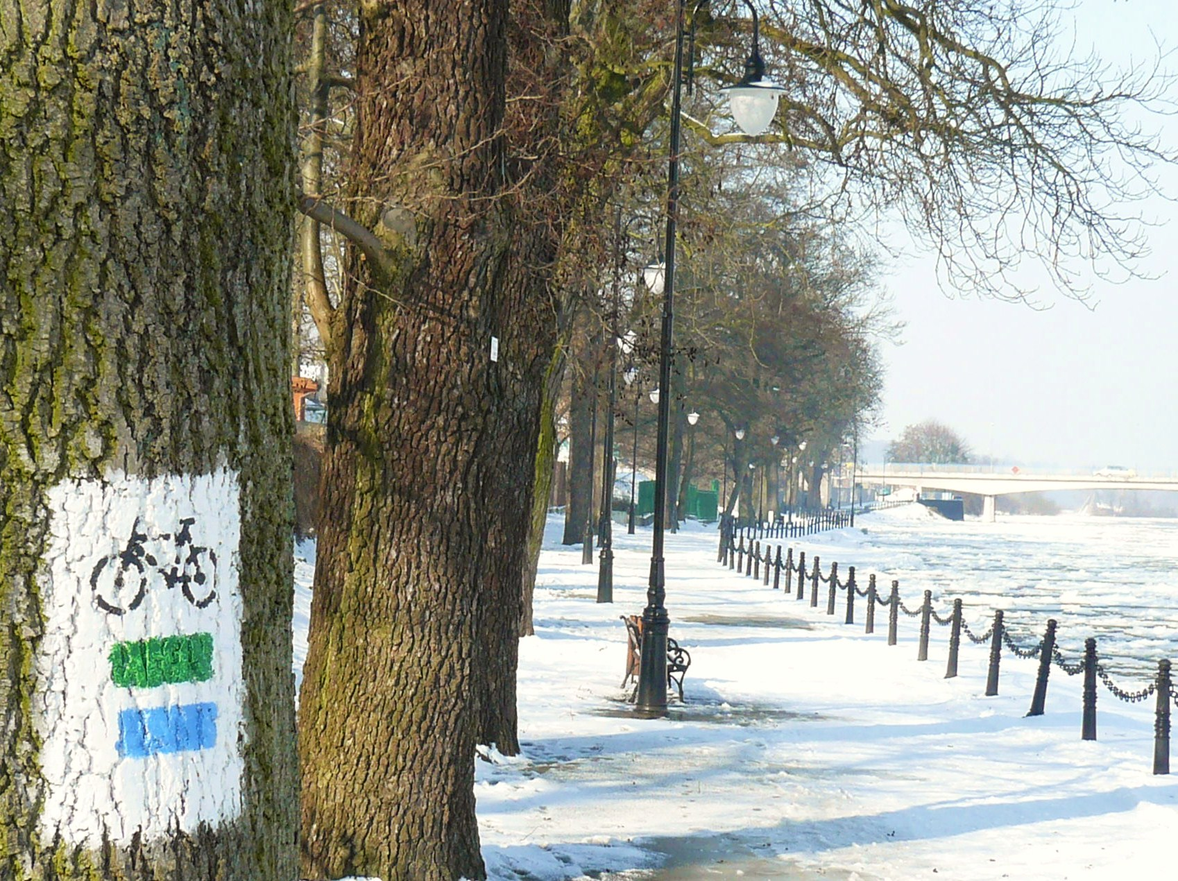 Promenada Street, Srem. Warta River.